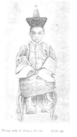 баатар ван